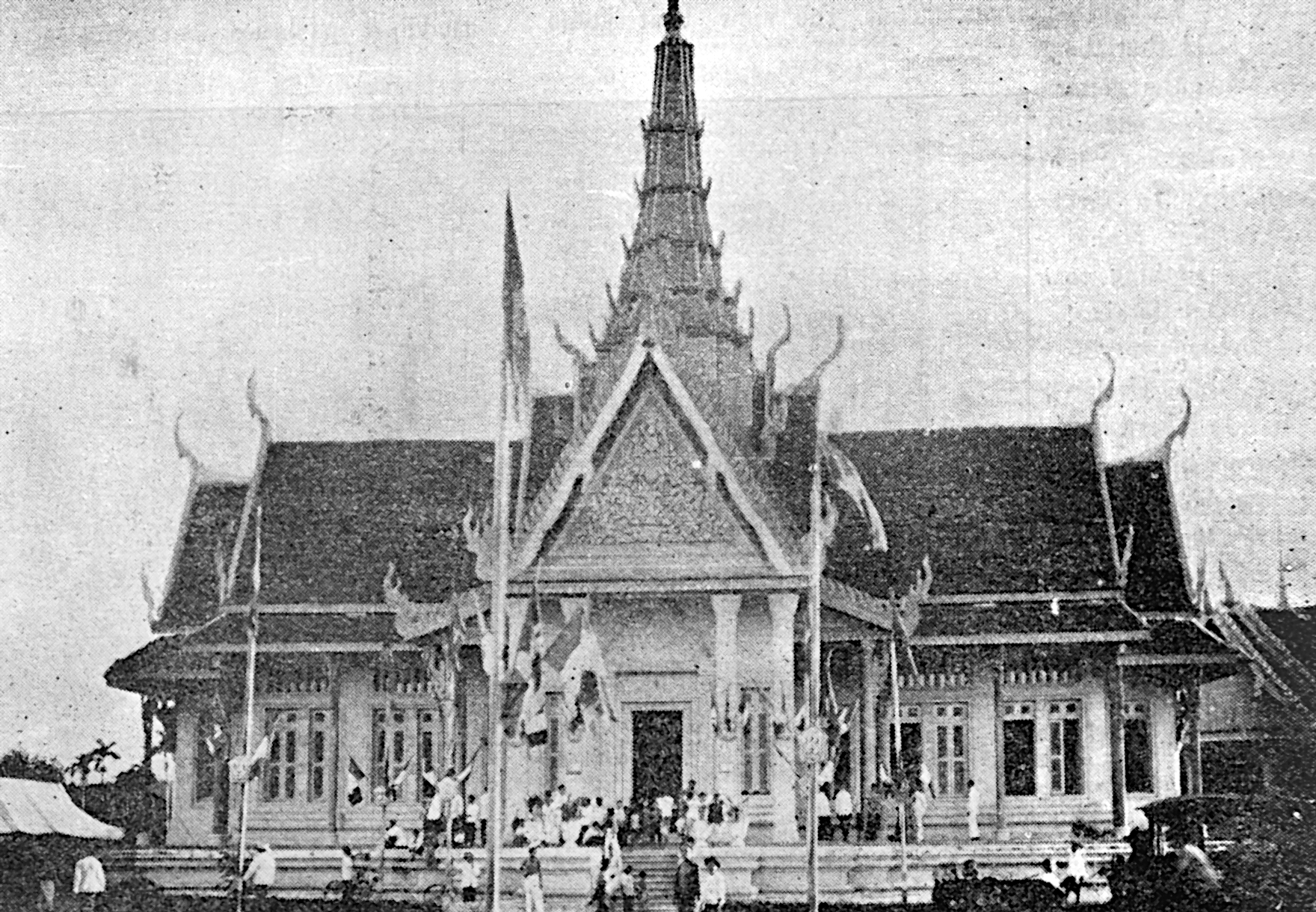 Main building of the Institut bouddhique de Phnom Penh, opened 1930 as part of the National Library.